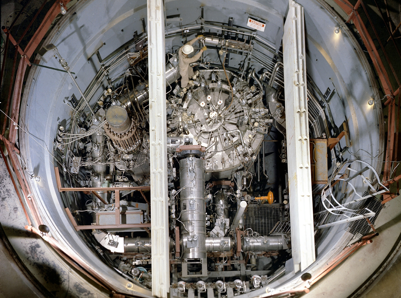 A top down view of the Molten Salt Reactor Experiment.